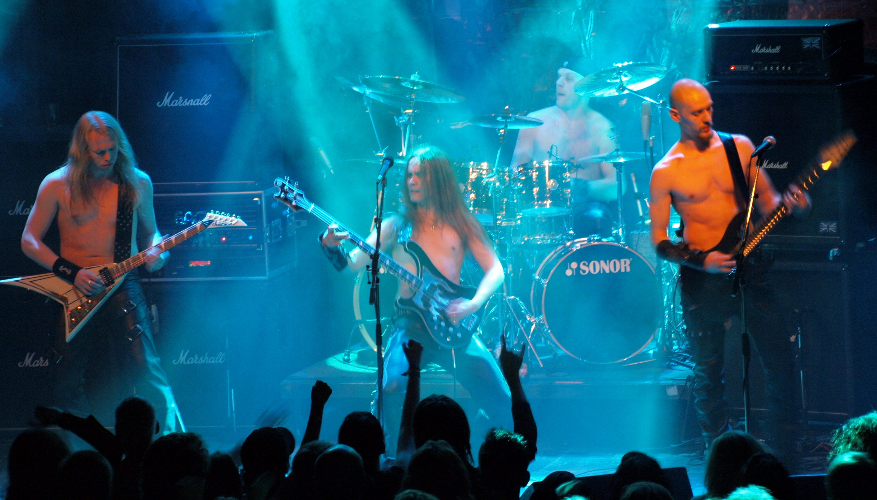 Finnish heavy metal band Teräsbetoni live